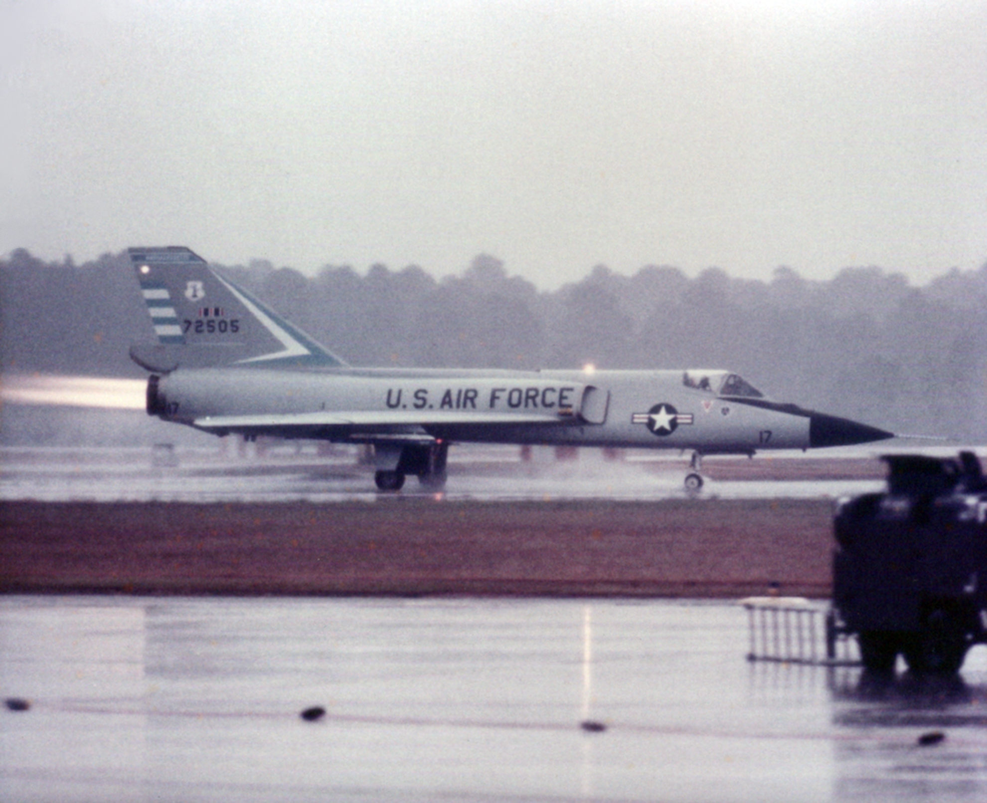 U.S. Air Force Convair F-106A-90-CO Delta Dart fighter (s/n 57-2505) of the 101st Fighter-Interceptor Squadron, Massachusetts Air National Guard, takes off with afterburner on a rainy day from Otis Air Force Base, Masschusetts (USA). The 101st FIS flew the F-106A from 1972 to 1987. The F-106A 57-2505 was retired to the to AMARC as FN0170 on 12 January 1988. It was later converted to a QF-106 (AD204) target drone and shot down by AIM-7M on 28 July 1993.